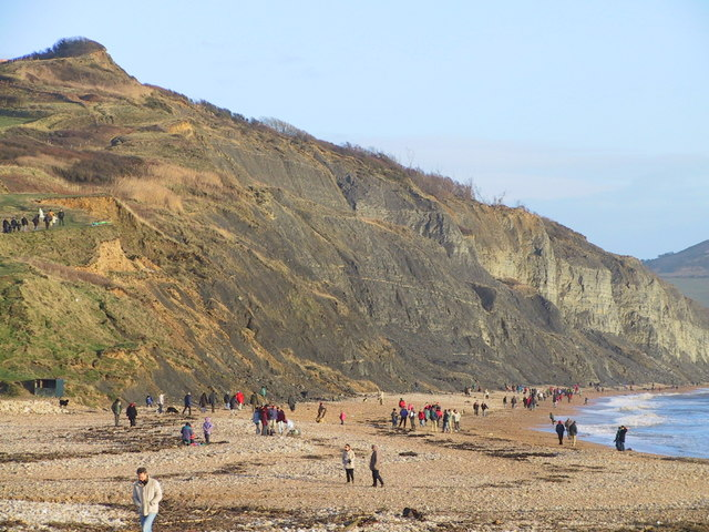 Beach at Charmouth